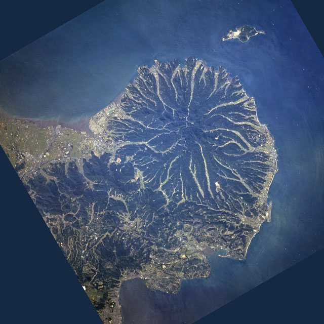 Kunisaki Paninsula and Himeshima Island, Oita, Japan